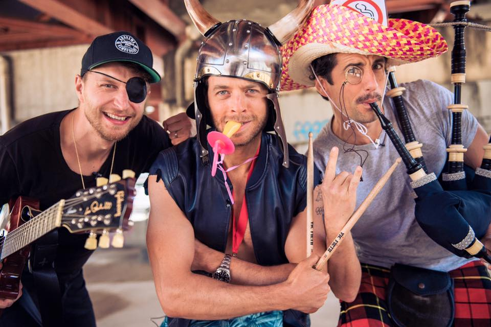 The band wearing their traditional outfits. (Post,Blake,Lee)